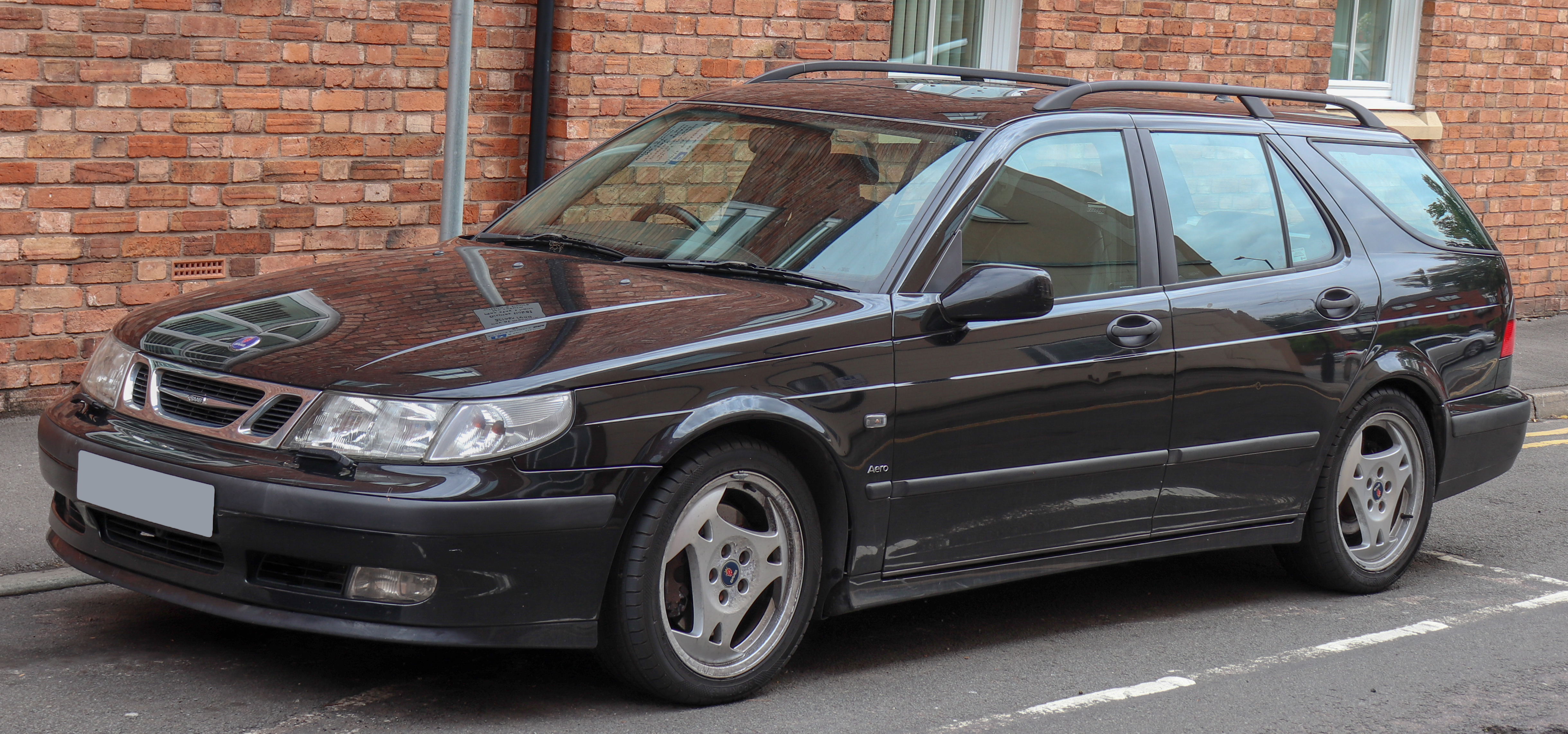 2000 Saab 9-5 Aero Estate 2.3 Front Taken in Stratford-upon-Avon